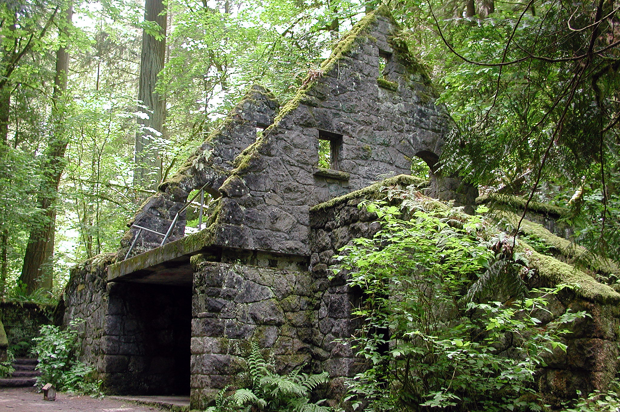 This stone structure in Macleay Park, Portland, Oregon, was built in the mid-1930s by the Works Progress Administration (WPA) and maintained as a public restroom until 1962. The remains are still used as a resting spot where the Wildwood Trail meets the Lower Macleay Trail along Balch Creek.